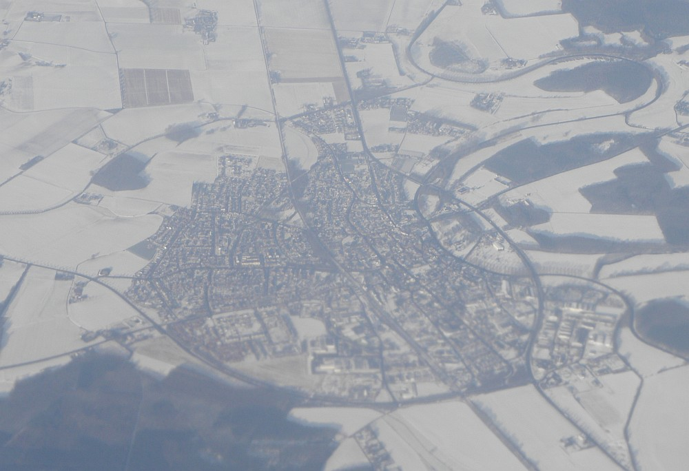 Aerial photo of Weeze